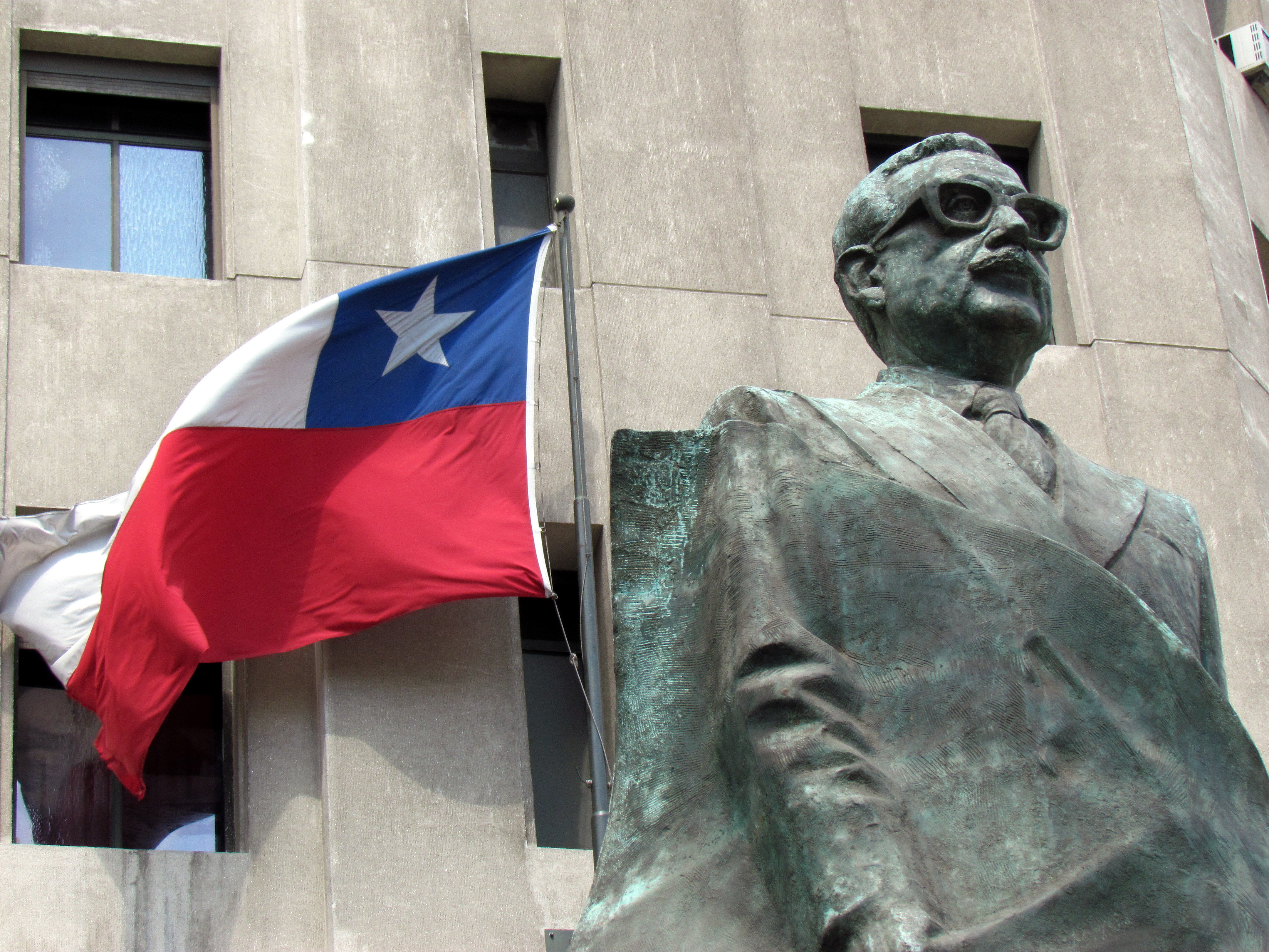 Salvador Allende sculpture - Santiago, Chile. (cc) David Berkowitz